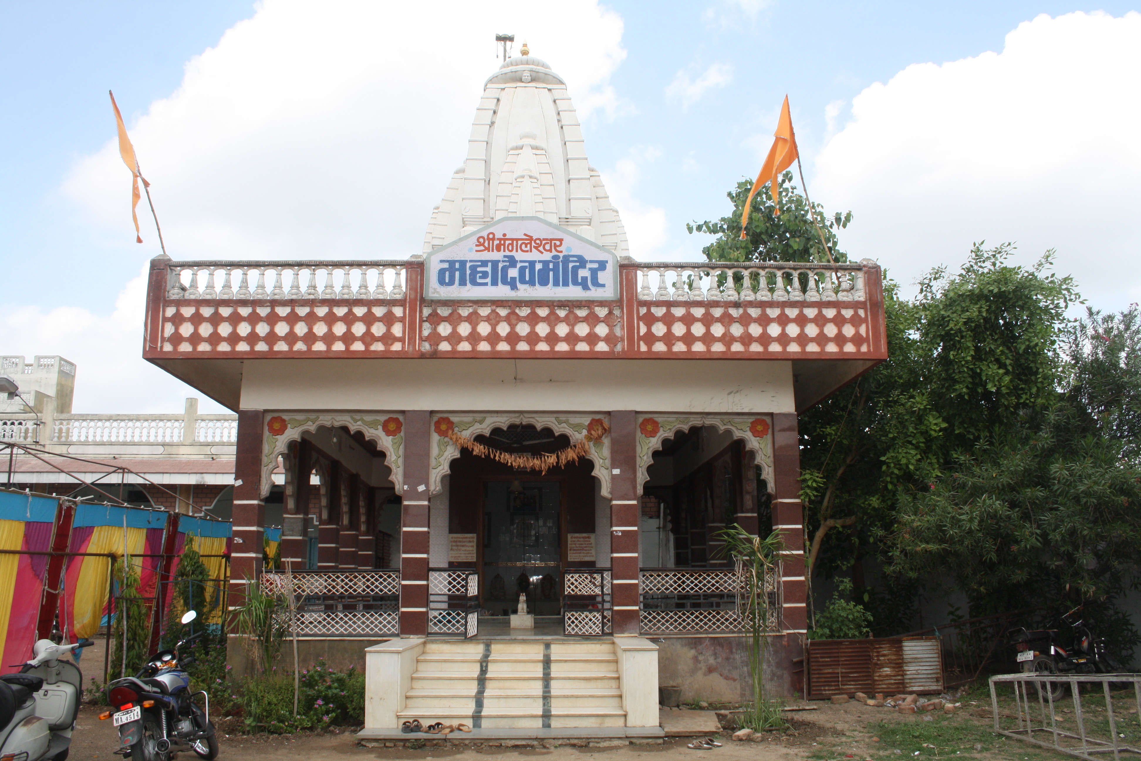 This is an image of Shiv Mandir situated in Dwarikapuri at Manasa, MP.